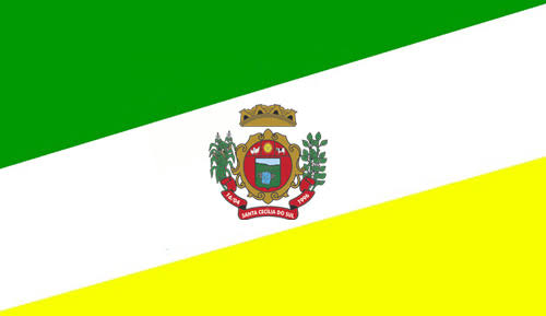 Flags of the city of Santa Cecília do Sul , Rio Grande do Sul, Brazil.